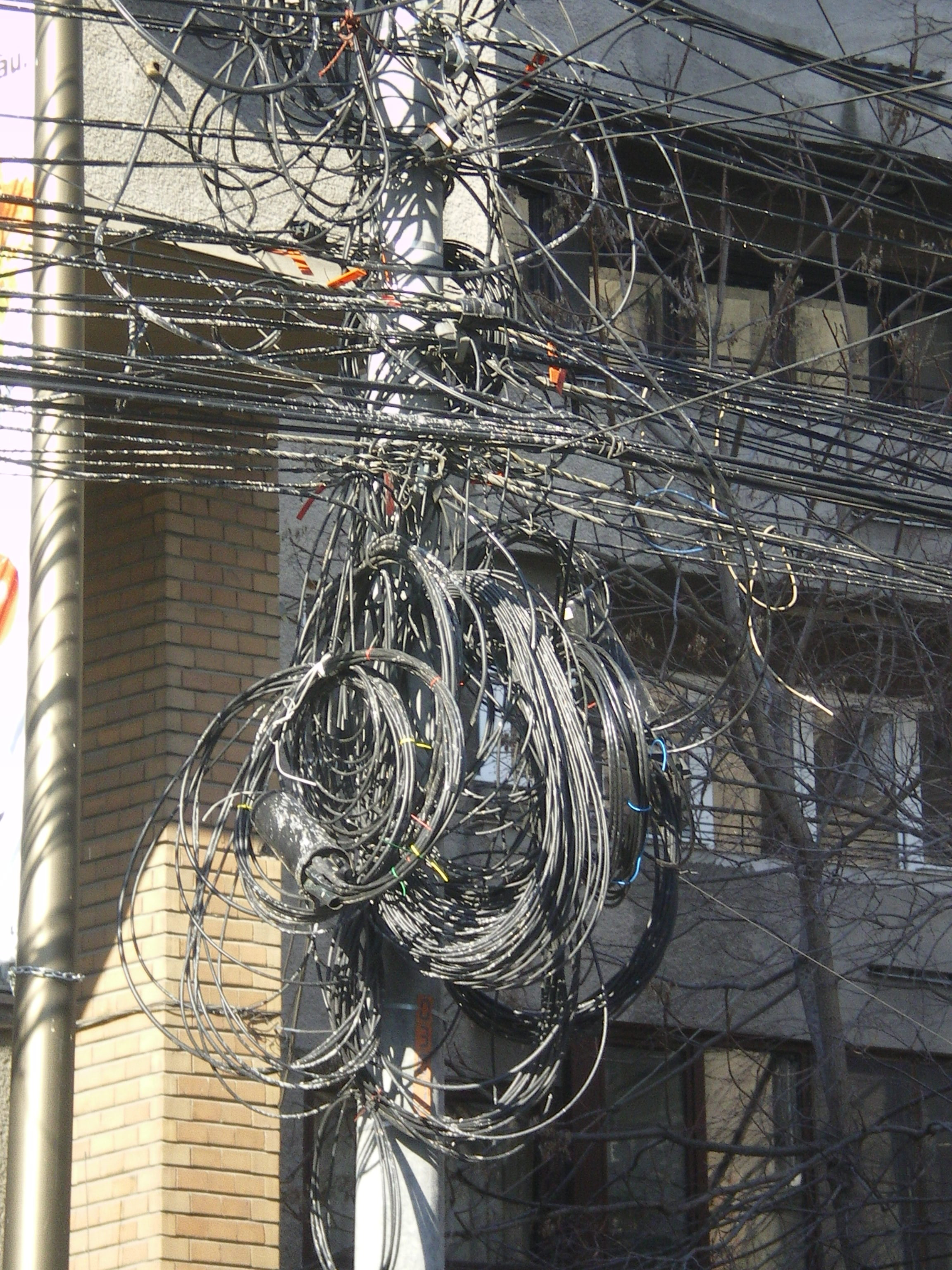 Cable Network in Bucharest (Rumania)